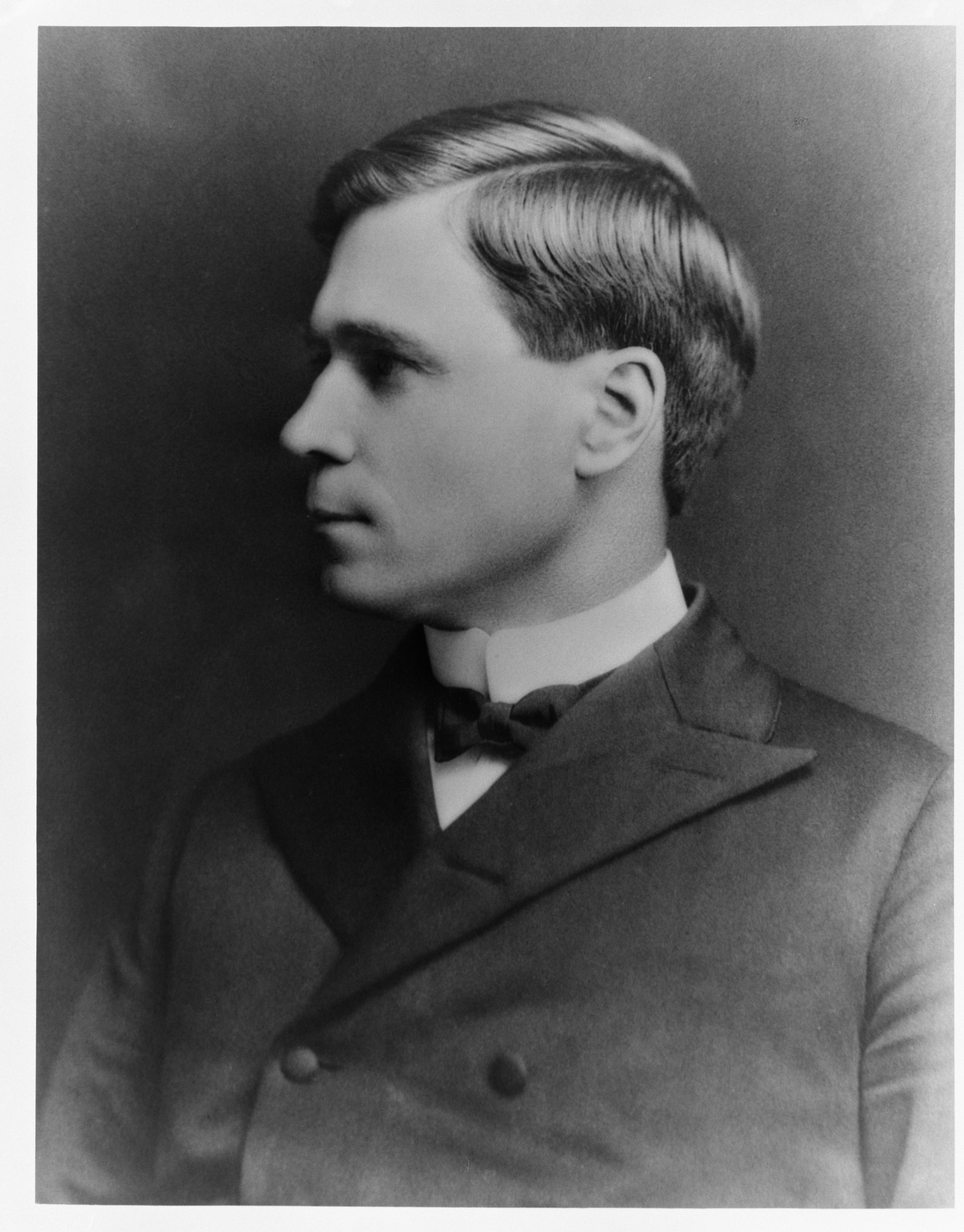 Portrait of University of Puget Sound President Edwin M. Randall, 1903. President's Office Records 1888-1942, University of Puget Sounds Archives & Special Collections, Tacoma, Wa